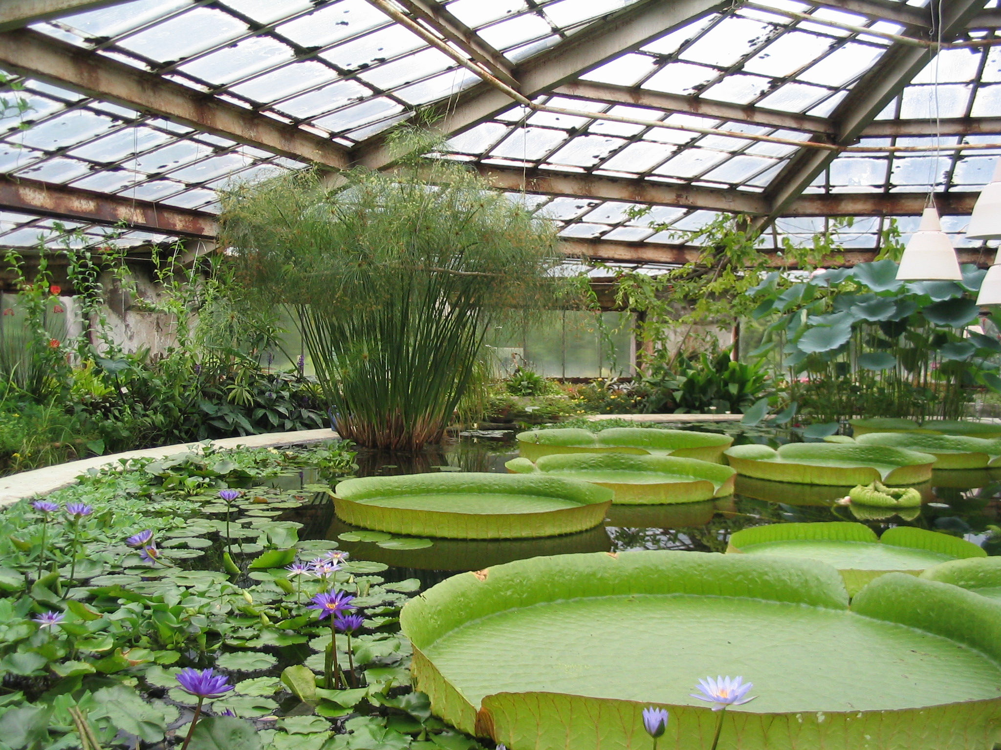 Conservatory No 28 of Botanical_Garden__V.L._Komarov_Botanical_Institute